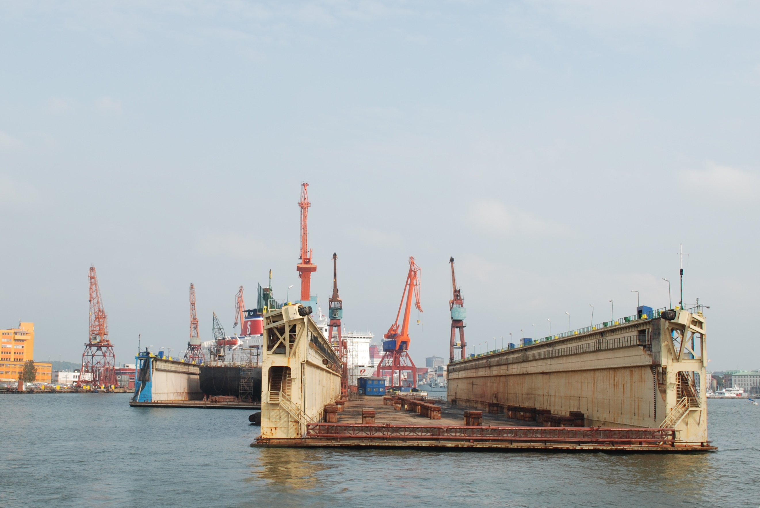 Götaverken Cityvarvet (Götaverken City Shipyards) is the only remaining shipyard in Gothenburg, today only a repair yard. The shipyard has two floating docks. Length 142 metre (left) and 252 metre (right), for larger vessels up to Panamax size, it´s approximately 75,000 dwt. Photo taken from Älvsnabben, a local ferry service operating the Göta älv in central Göteborg, with stations on both sides of the river.